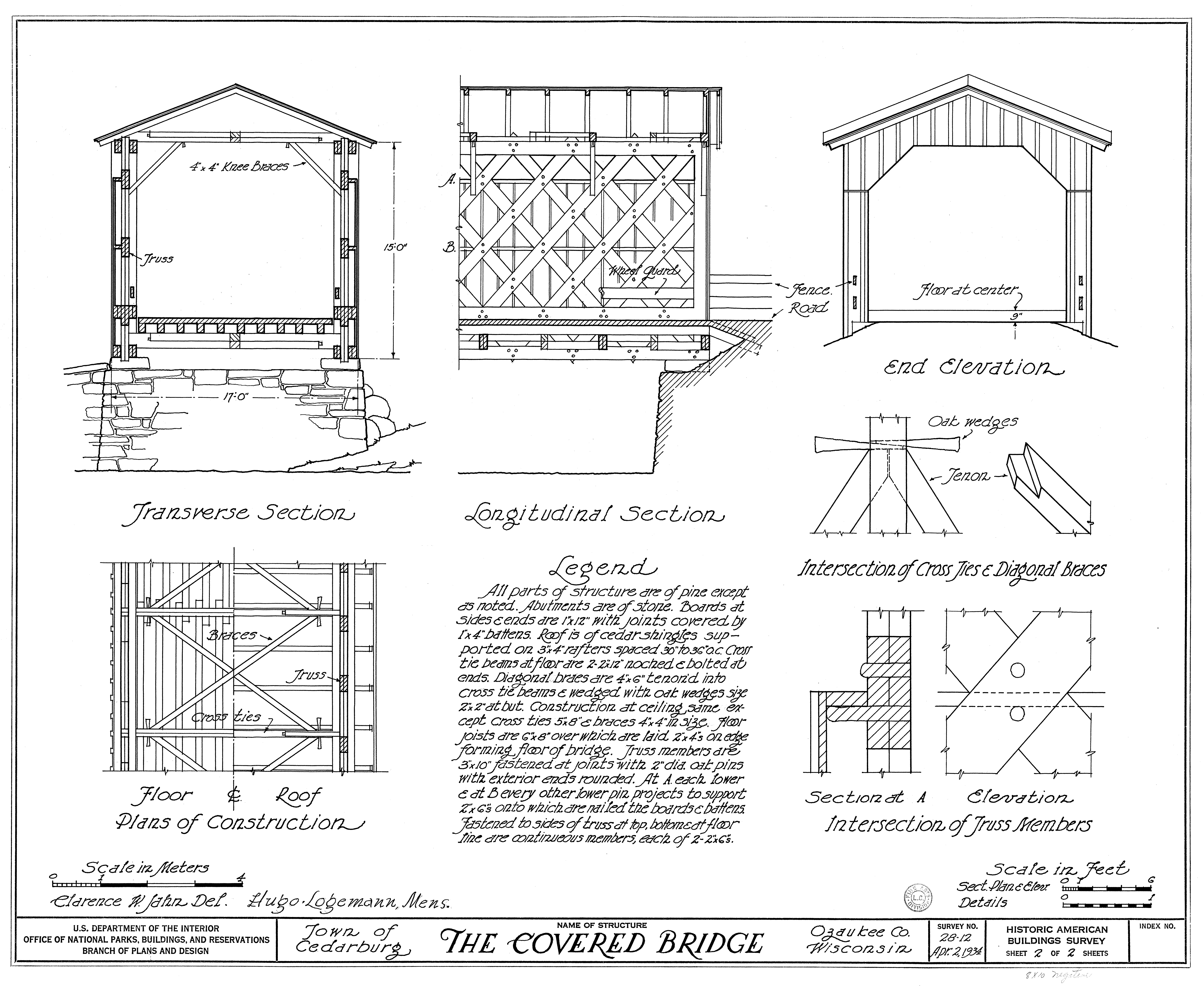 Historic American Buildings Survey sketch of Covered Bridge, Cedarburg, Wisconsin. This is the cover sheet showing different parts of the structure.